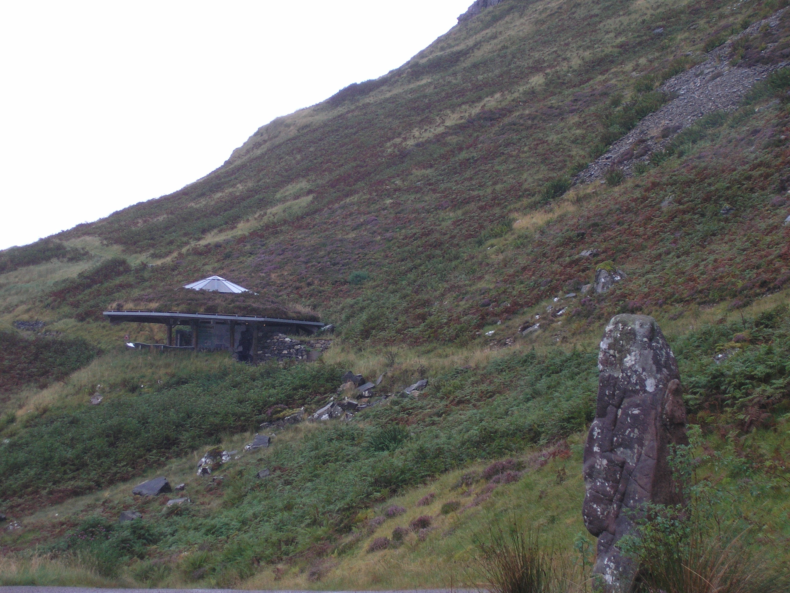 Knockan Crag visitor centre, Sutherland, Scotland